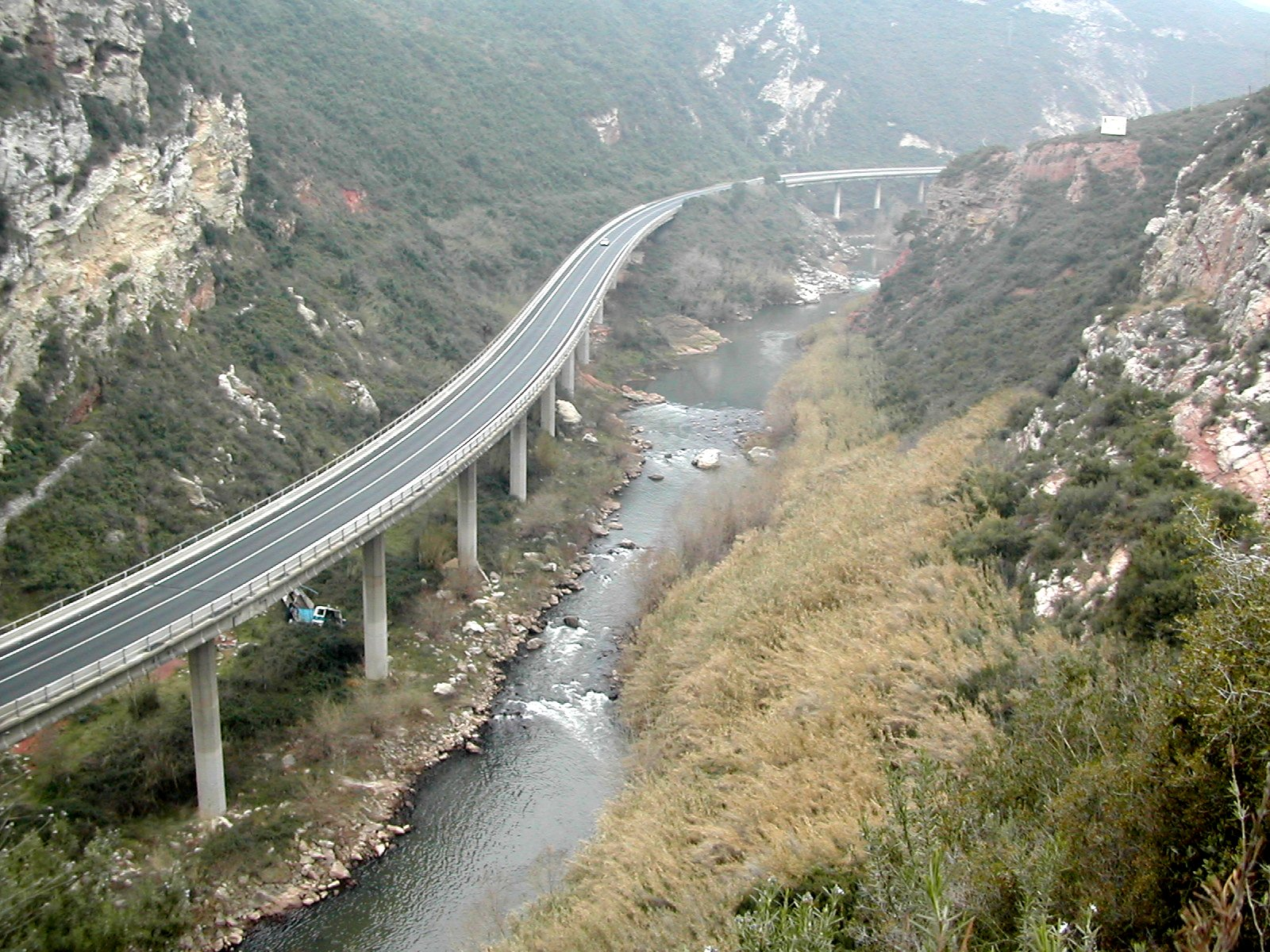 Llobregat river (Olesa de Montserrat, Spain)